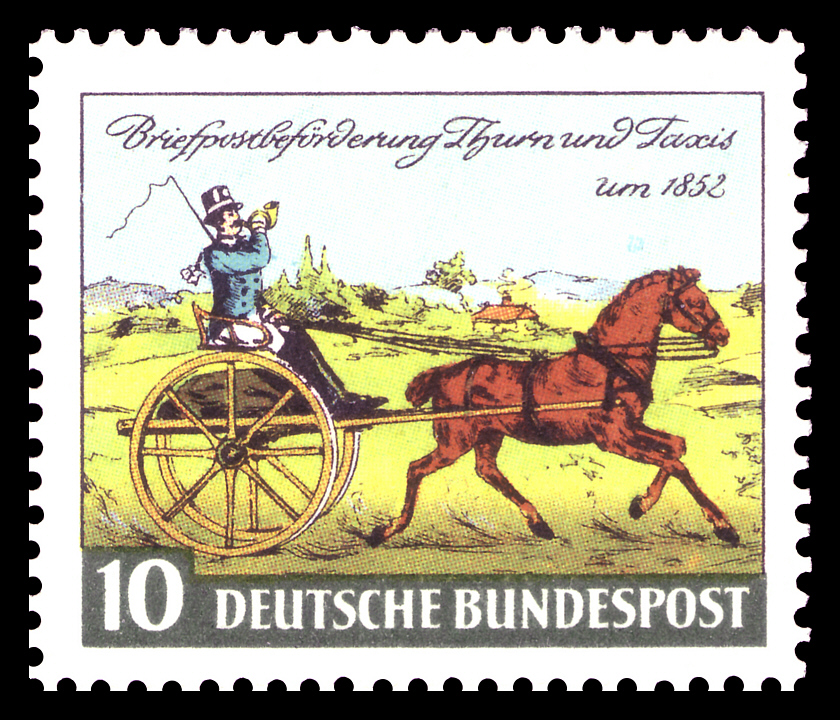 Stamp 1952 for 100 anniversary of the first stamps of Thurn and Taxis Graphics by Bagel Ausgabepreis: 10 Pfennig First Day of Issue / Erstausgabetag: 25. Oktober 1952 Michel-Katalog-Nr: 160